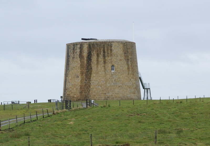 Hackness Martello Tower and Battery, South Walls, Orkney, Scotland. Hackness Martello Tower. View from west.